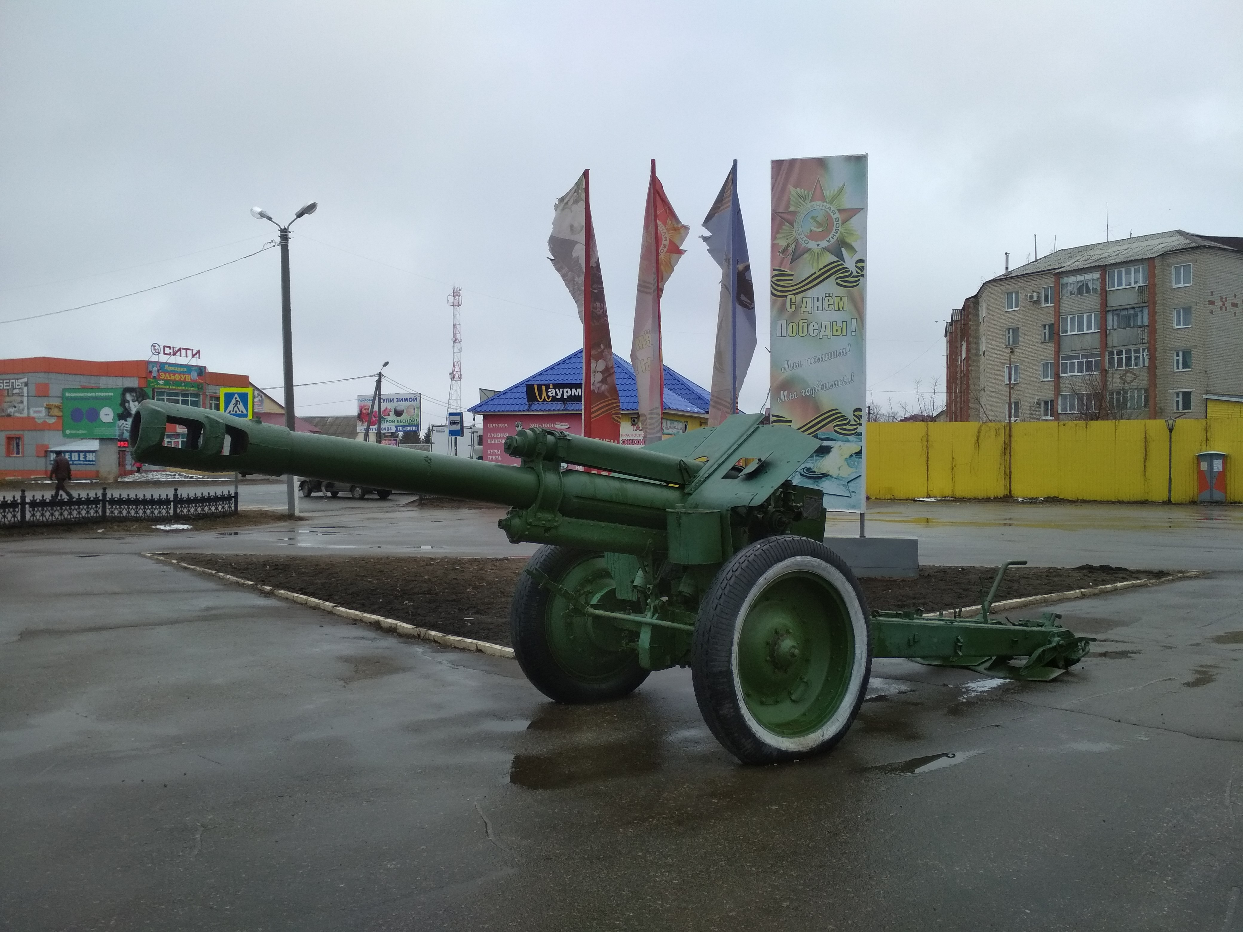 A 152-mm howitzer of the 1943 model (D-1), installed at the monument to the war fallen in the Great Patriotic War of 1941-1945. City of Krasnoslobodsk, Mordovia.